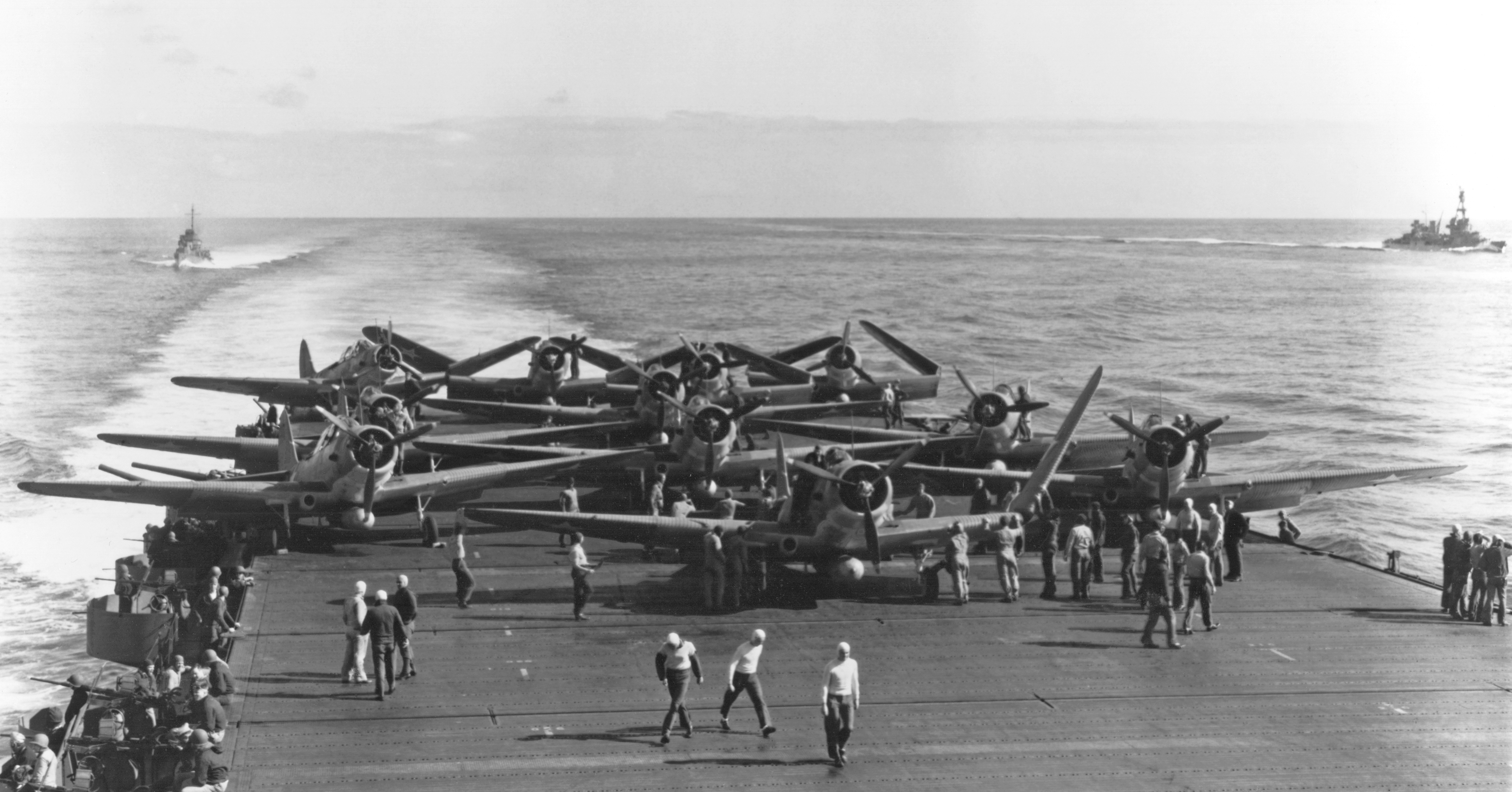 U.S. Navy Torpedo Squadron 6 (VT-6) Douglas TBD-1 Devastator aircraft are prepared for launching aboard the aircraft carrier USS Enterprise (CV-6) at about 0730-0740 hrs, 4 June 1942. Eleven of the fourteen TBDs launched from Enterprise are visible. Three more TBDs and ten Grumman F4F-4 Wildcat fighters must still be pushed into position before launching can begin. The TBD in the left front is Number Two (BuNo 1512), flown by Ensign Severin L. Rombach and Aviation Radioman 2nd Class W.F. Glenn. Along with eight other VT-6 aircraft, this plane and its crew were lost attacking Japanese aircraft carriers somewhat more than two hours later. The heavy cruiser USS Pensacola (CA-24) is in the right distance and a destroyer is in plane guard position at left.